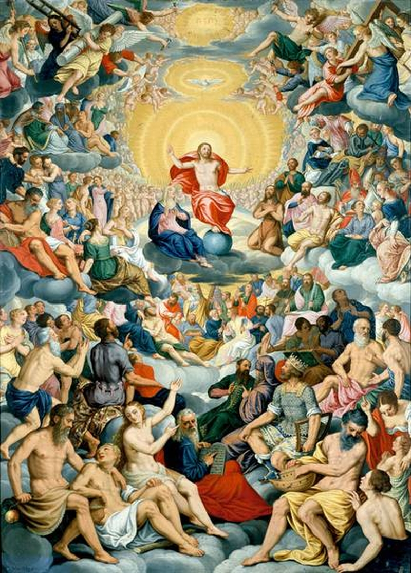 The work "All Saints' Day" and "Allerheiligen" respectively from the swabian painter Johann König.